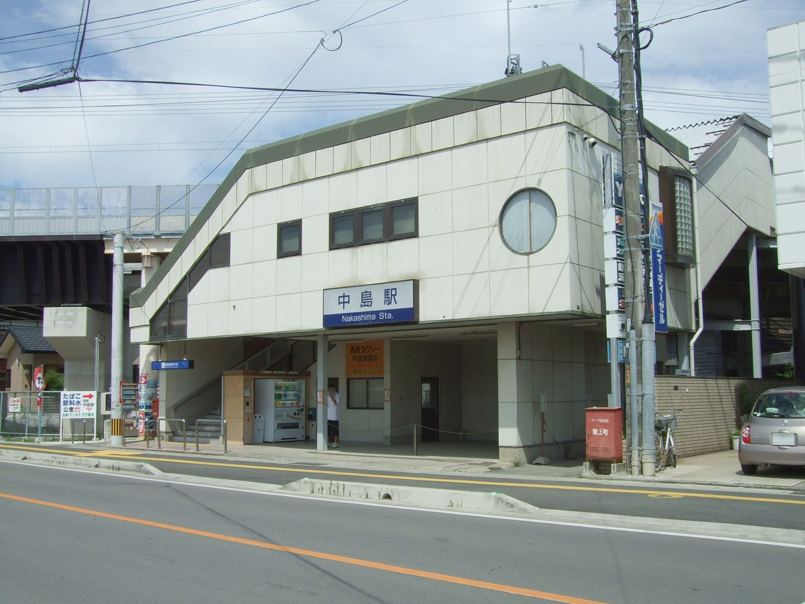 Nishitetsu Nakashima Station, Nishitetsu Tenjin Omuta Line.